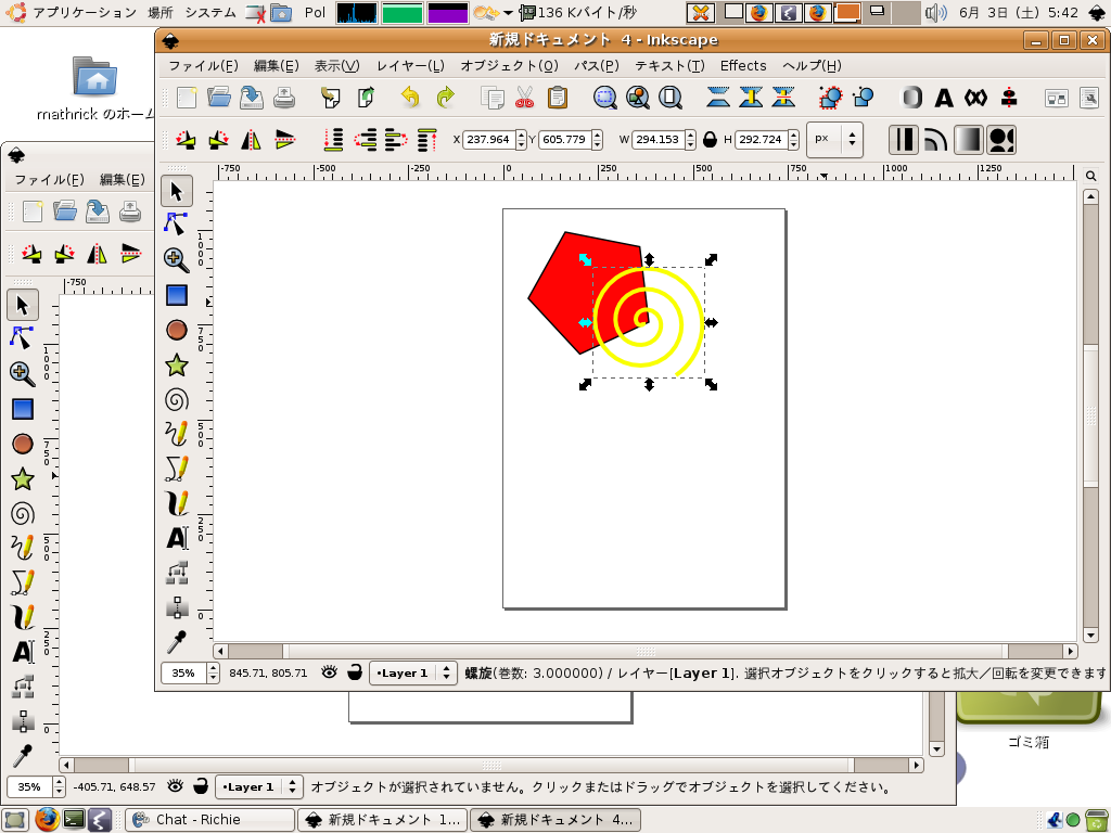 An example of SDI user interface, using Inkscape. Each document window has its own, completely independent window.